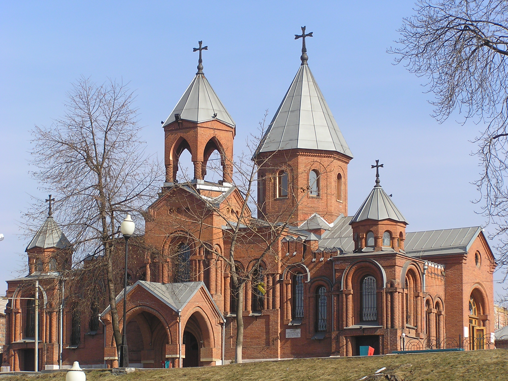 Armenian Church Summary Object: Vladikavkaz, Russia Description: Armenian Church Author: Вся Осетия (Vsia Osetia) Created: 2006 Source: Вся Осетия (Vsia Osetia) Ирон: Сыгъдæг Григор-Рухстауæджы сомихаг аргъуан Дзæуджыхъæуы